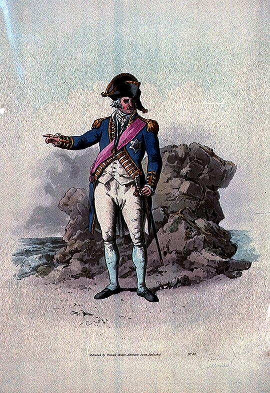 Admiral of the Royal Navy (uniform); aquatint, coloured